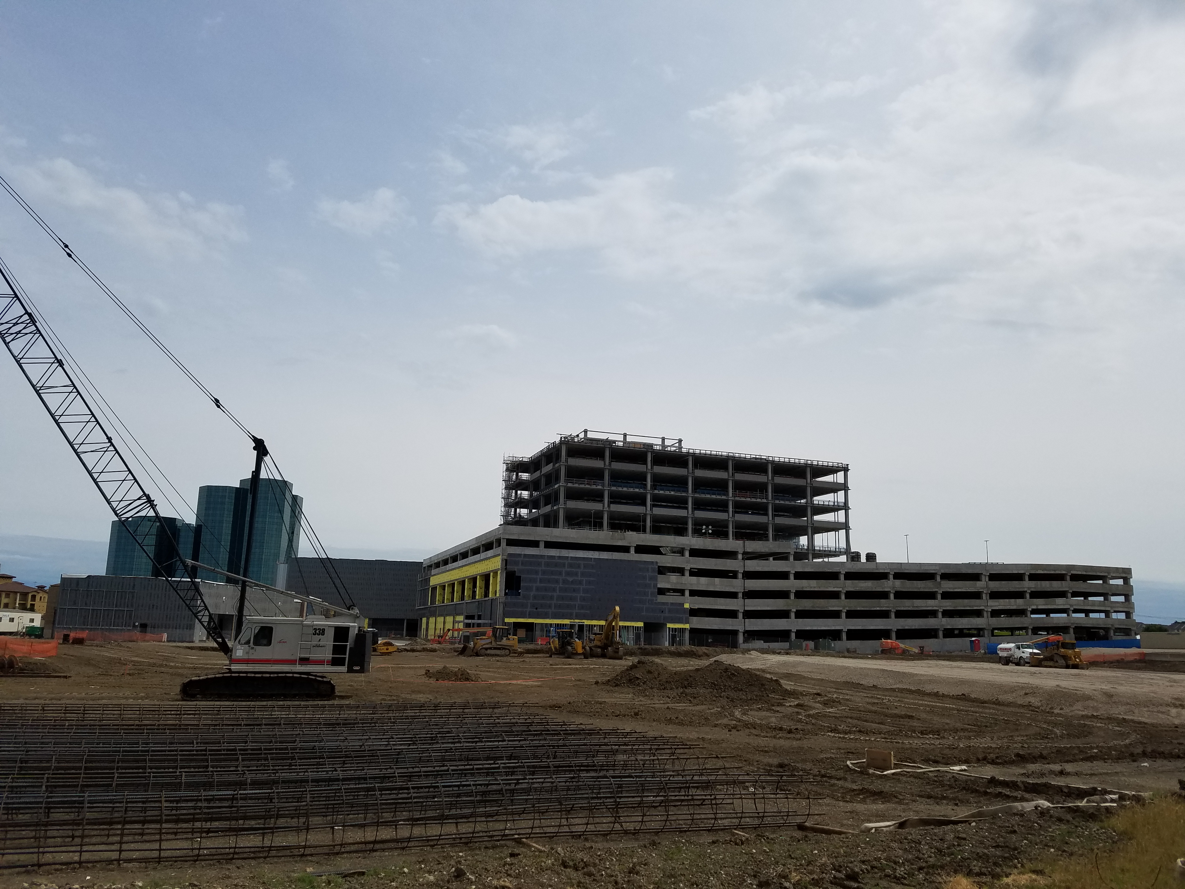 Irving Music Factory under construction in May 2017